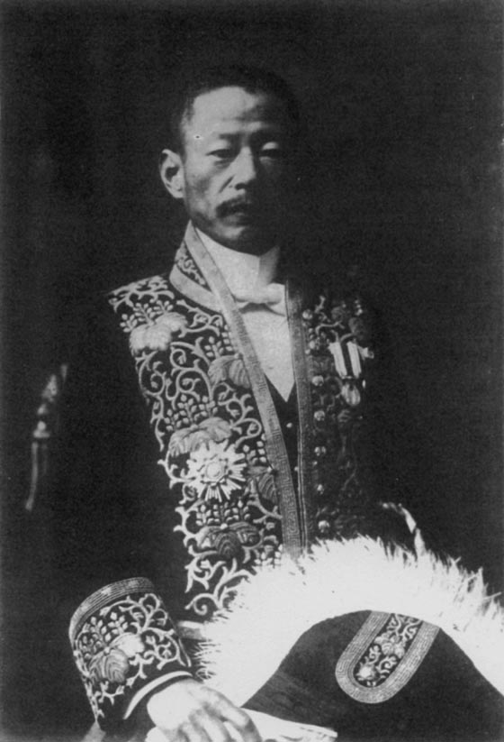 Kanai Noburu before the celebrate his 25 years in office, October 1916.